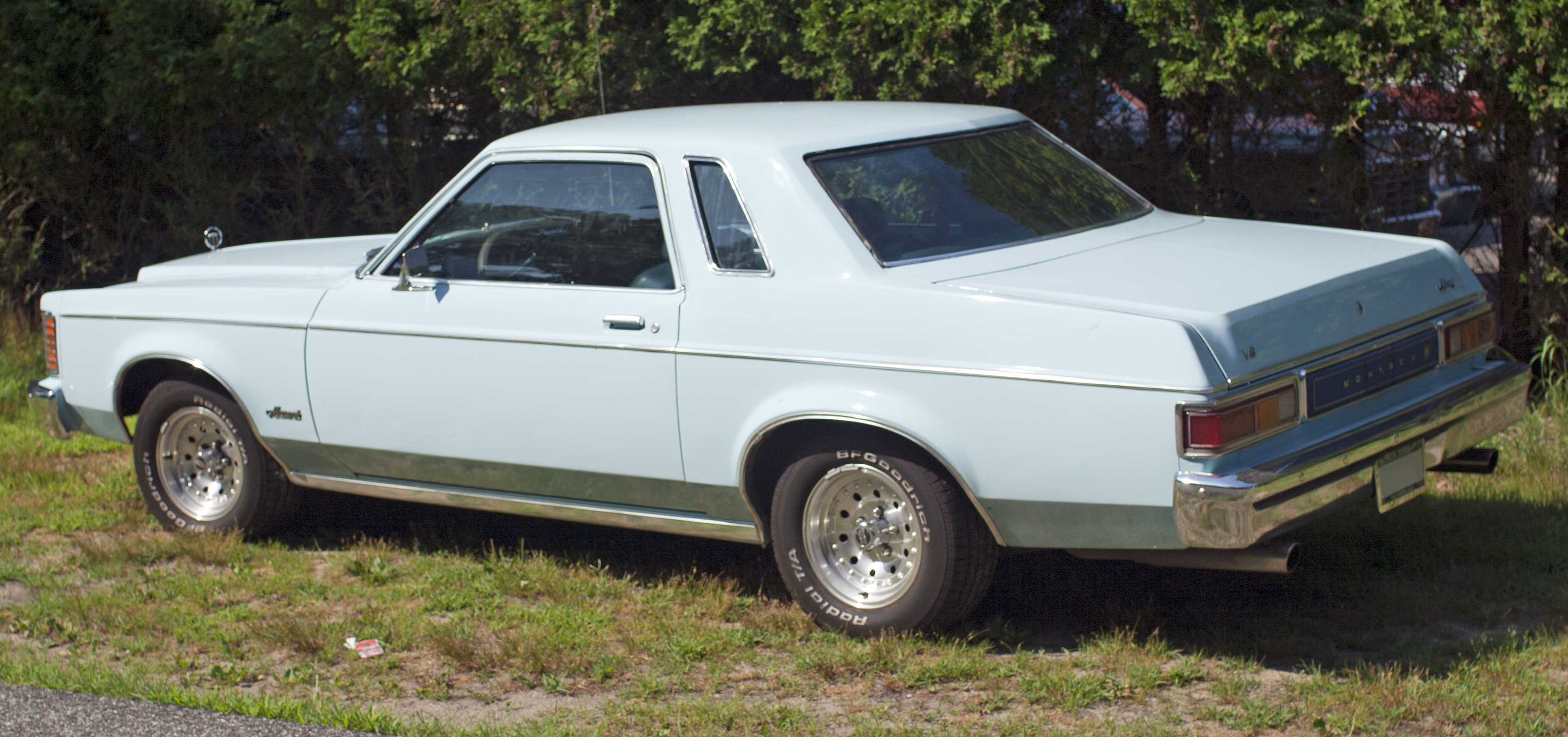 1977 Mercury Monarch two-door coupé, with 5.0 litre (302 ci) 2V V8.